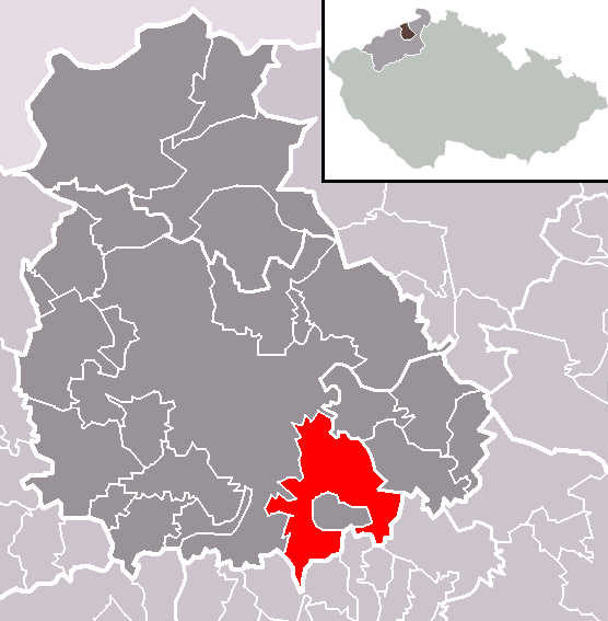 Location of Malečov municipality within Ústí nad Labem District and administrative area of Ústí nad Labem as a Municipality with Extended Competence.